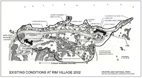 Map of the Rim Village Historic District in Crater Lake National Park, Oregon, United States.